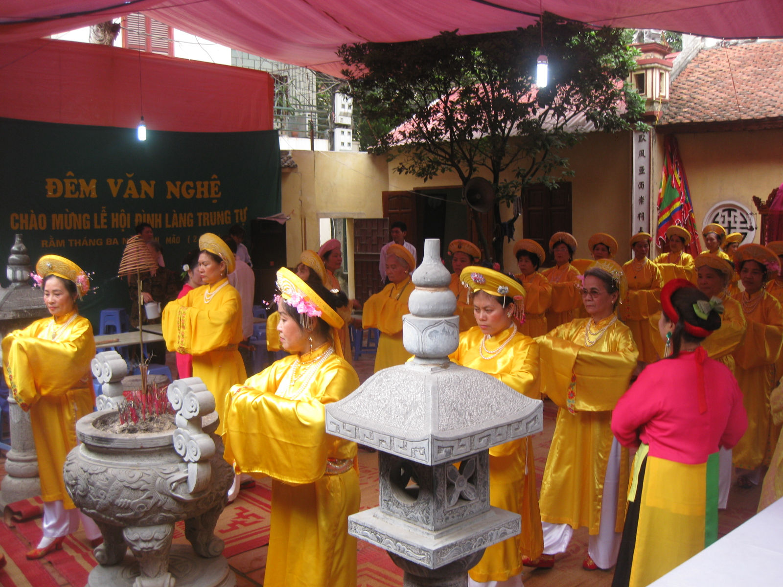 An annual festival in Trung Tu Village (15/3 lunar calendar)